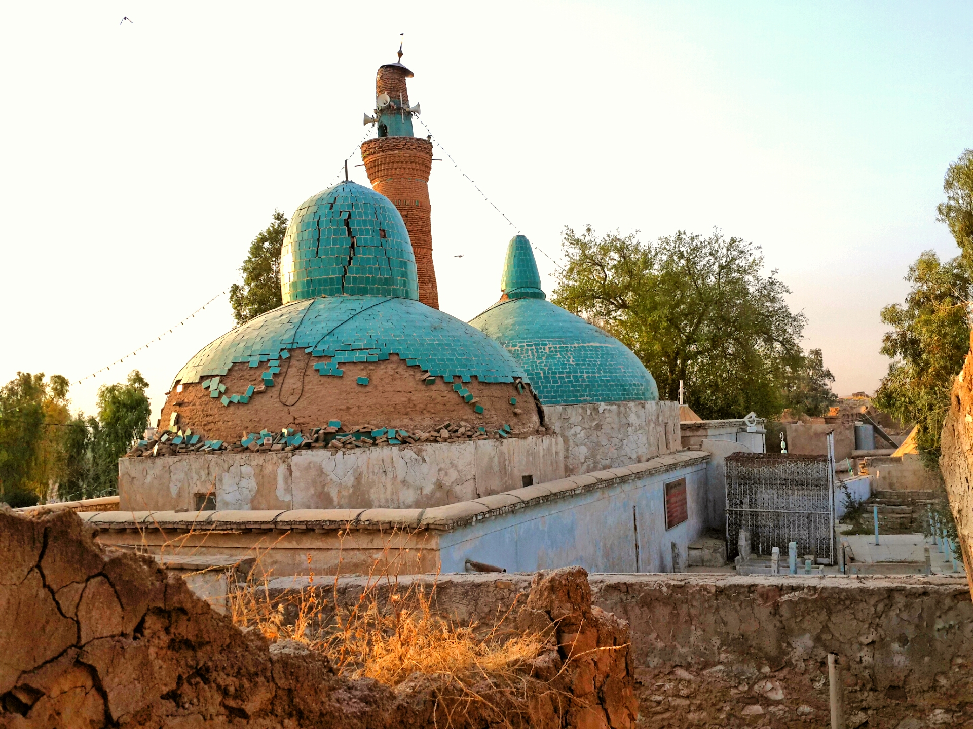 Supposed tomb of Daniel in the Citadel of Kirkuk, Iraq